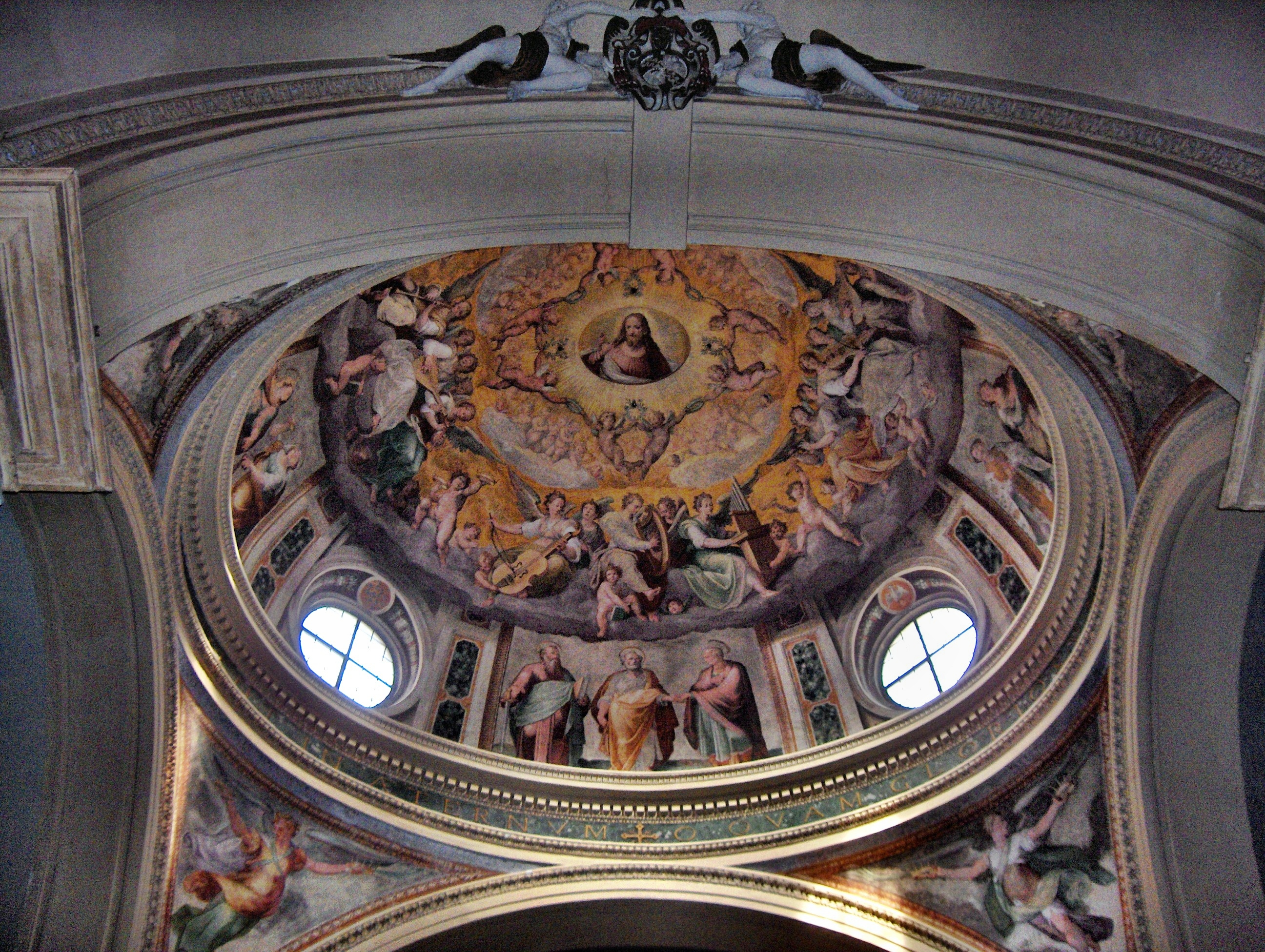 Painting in the dome of the church of Santa Pudenziana, Rome, Italy